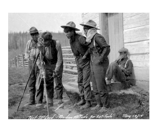 Frank Swannell at Fort McLeod. Photo taken 1914.